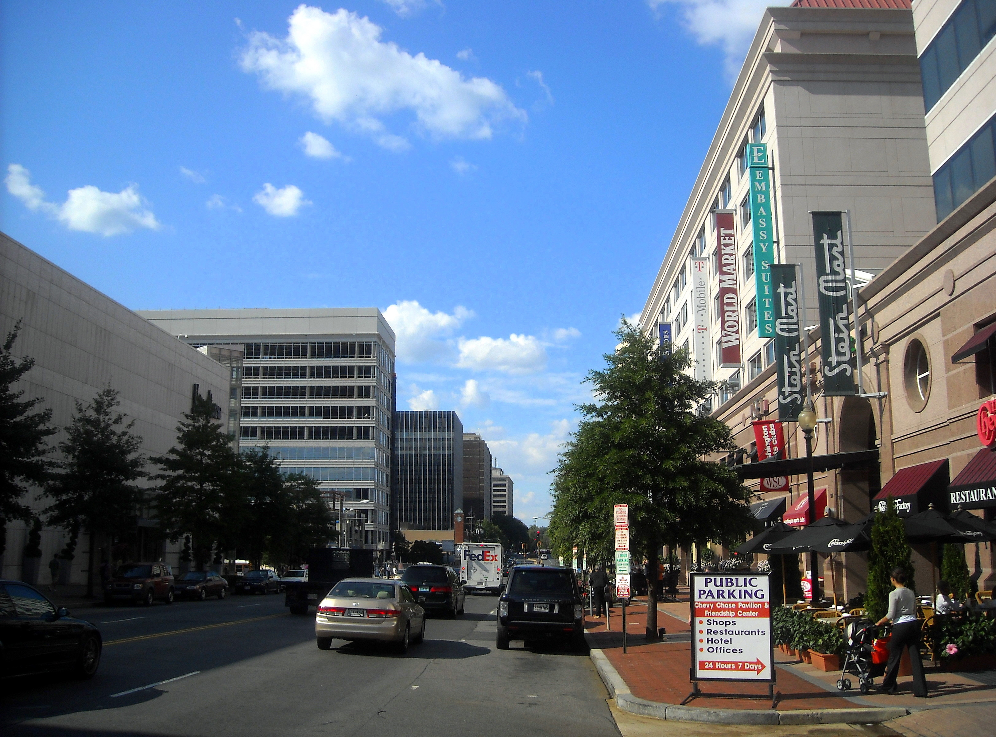 Facing north on the 5300 block of Wisconsin Avenue, N.W., in the Friendship Heights neighborhood of Washington, D.C.